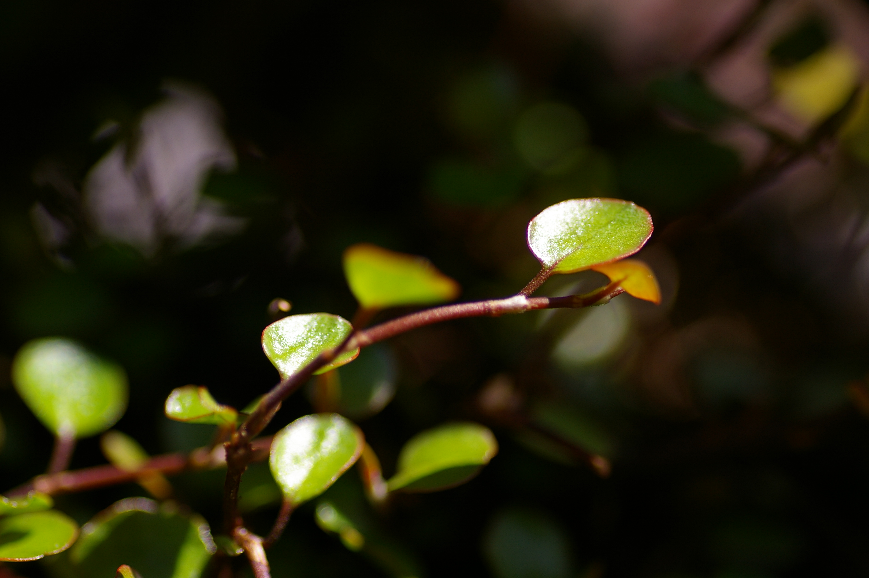 Muehlenbeckia complexa